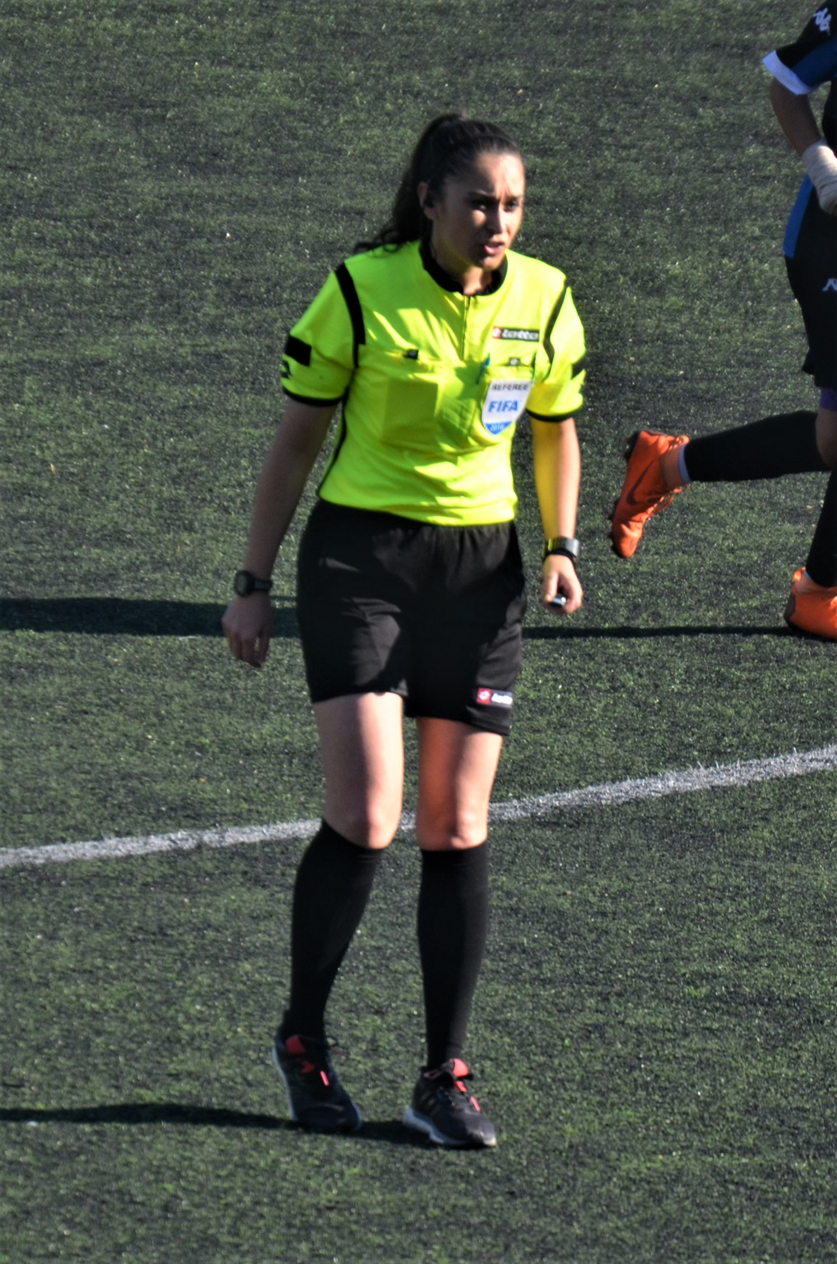 Betül Nur Yılmaz serving as referee.